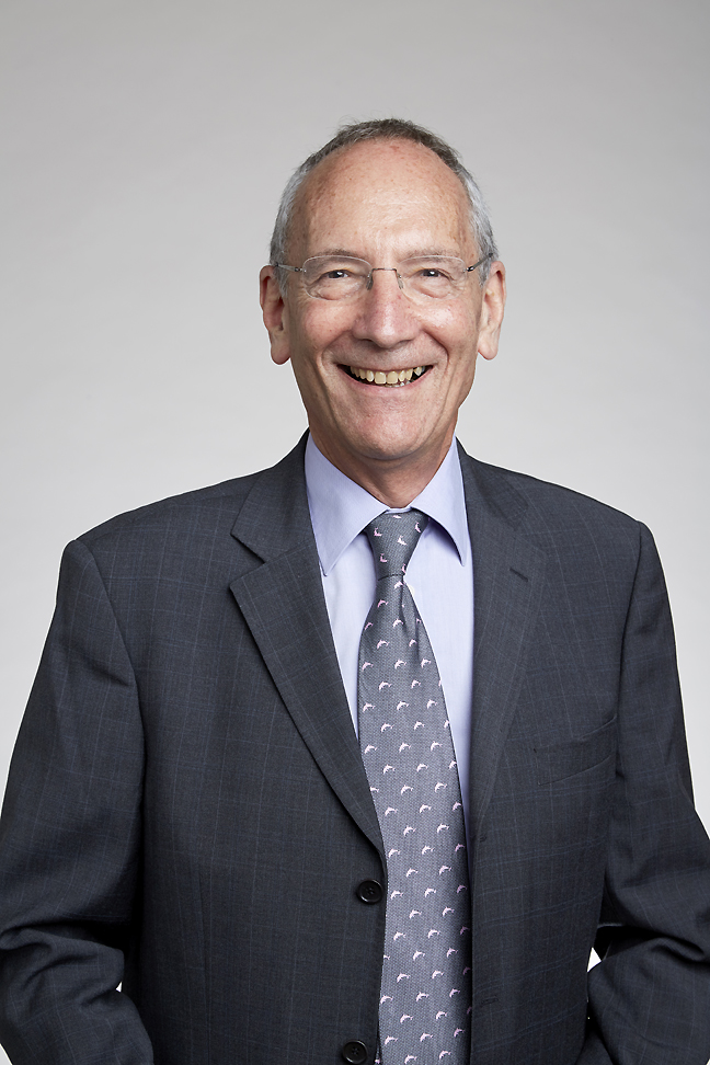 Stafford Louis Lightman FRS FMedSci (born 7 September 1948) is Professor of Medicine at the University of Bristol and president of the British Neuroscience Association Attribution: The Royal Society